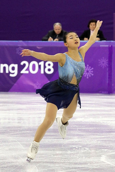 SAKAMOTO Kaori JPN – 6th Place